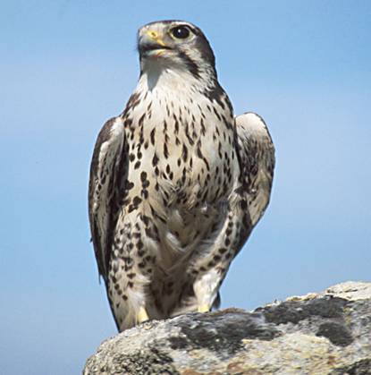 Prairie Falcon (Falco mexicanus)Diné bizaad: Atsáłbáí (Falco mexicanus)